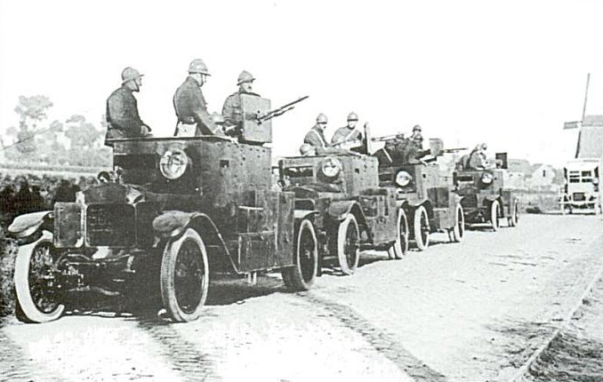 Group of Minerva armored cars, model 1914 WW1